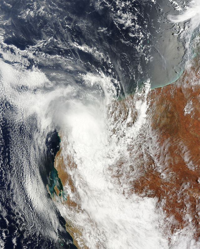 27 January 2009 MODIS Aqua satellite image of Tropical Cyclone Dominic over North West Australia.